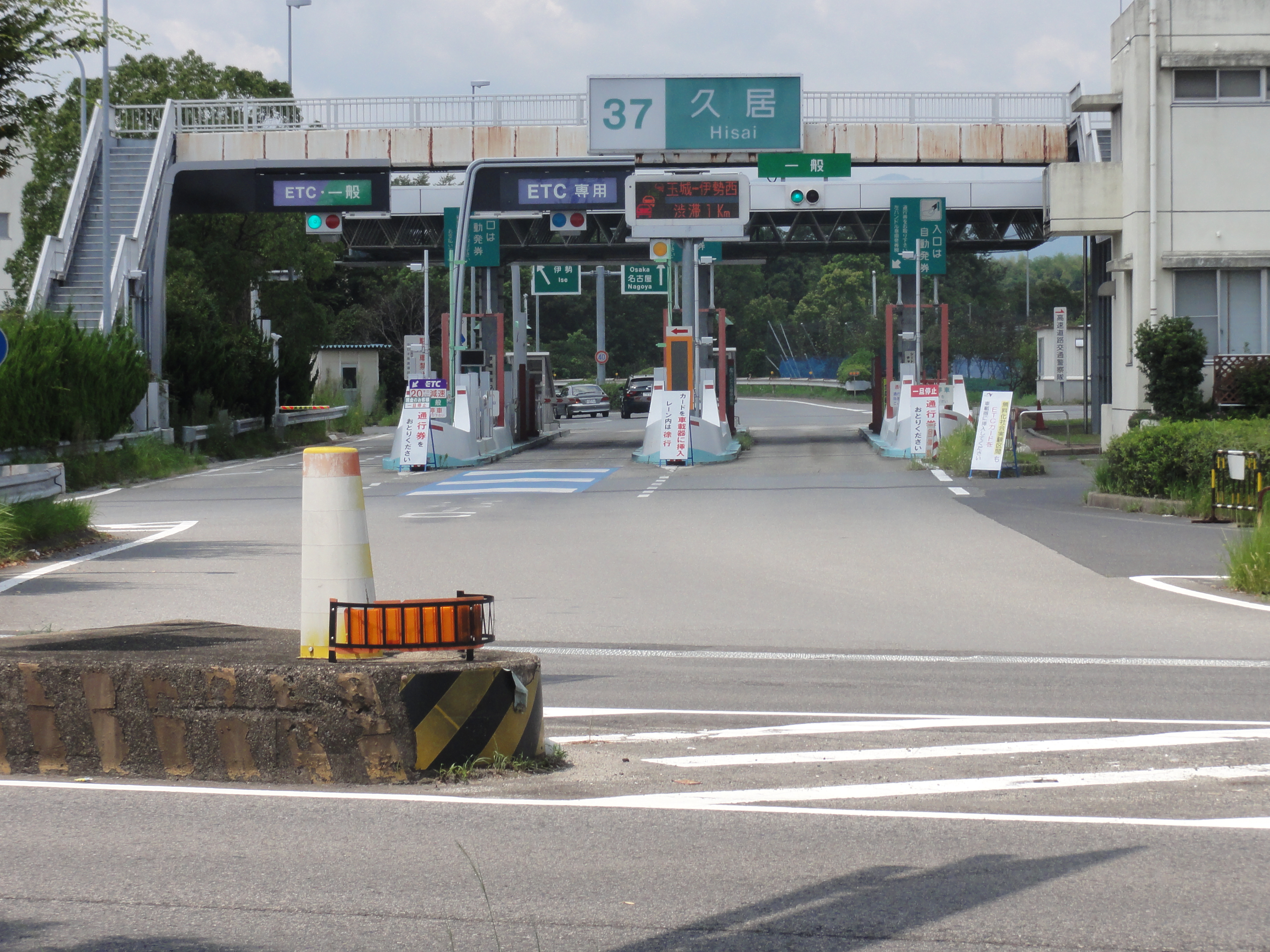 Hisai Interchange of Ise Expressway, Mie Pref., Japan.